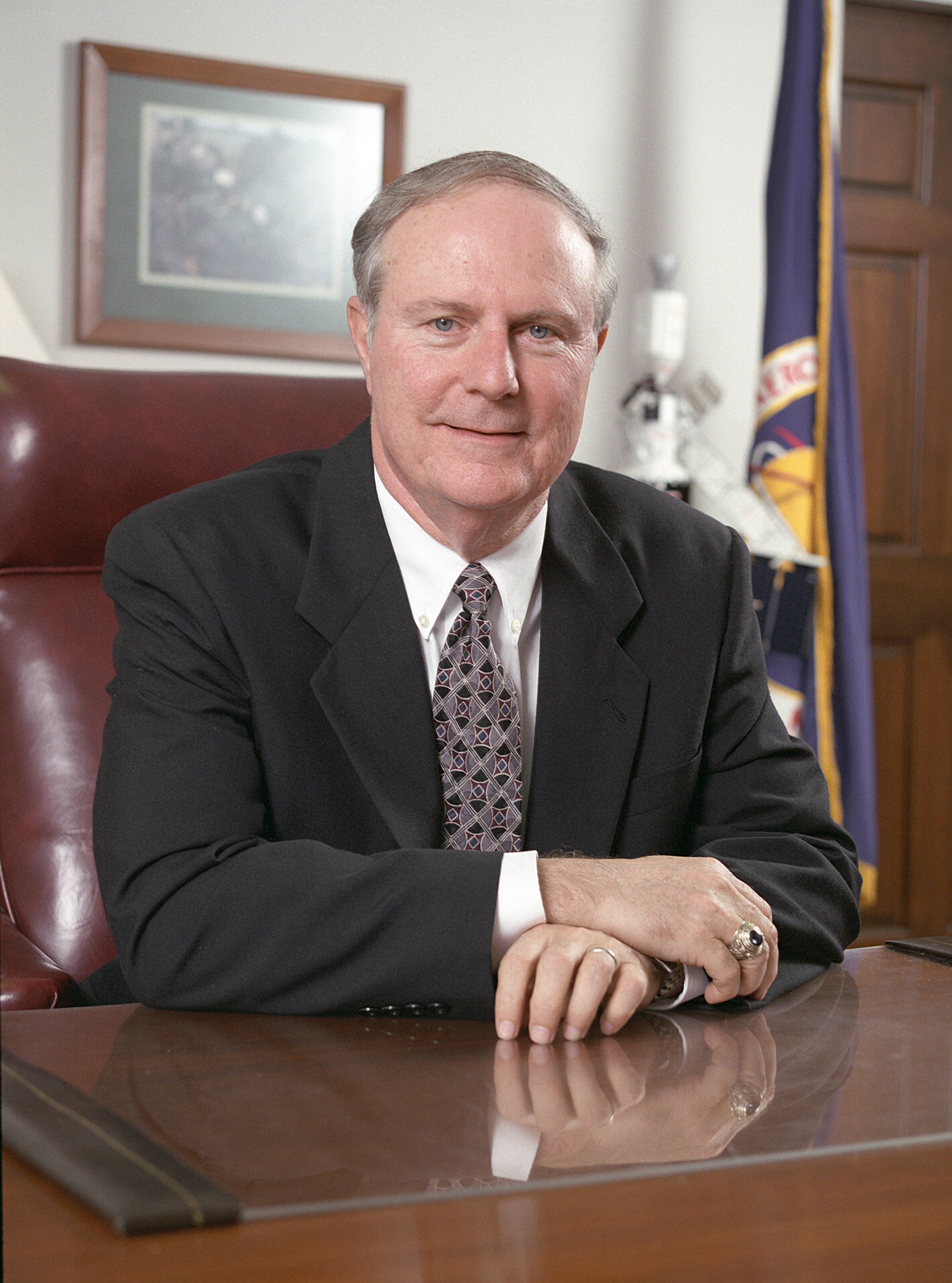 Portrait of Marshall's eighth Center Director Dr. Jerroll W. Littles (1996-1998). During the two short years as Center Director, Dr. Littles' administration was responsible for the Space Lab mission, the space science projects, alternative light-weight launch vehicles and their engine development.